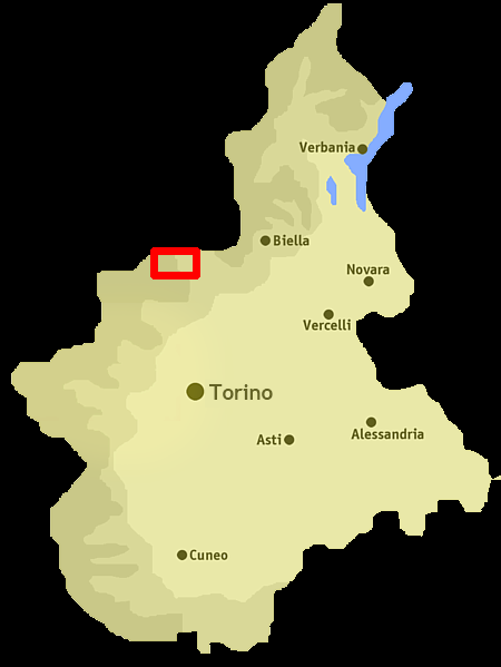 Chiusella valley position within Piedmont (NW Italy)